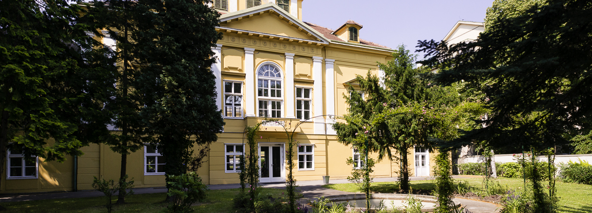 Mainbuilding of the Lauder Business School